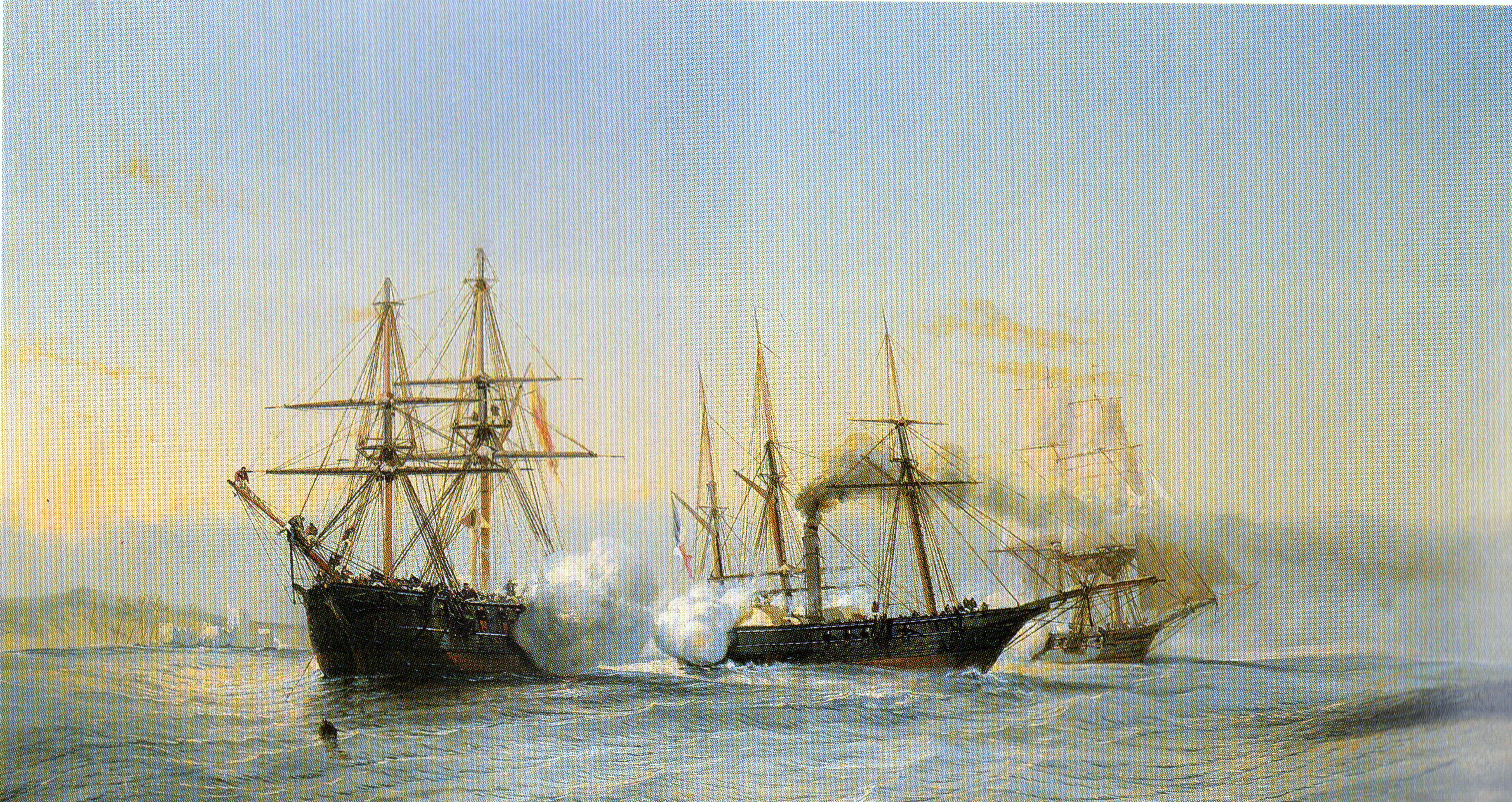 Naval battle in front of the Moroccan coast between two Moroccan brigs and a French wheeled-corvette on the occasion of the bombing of Mogador by the French squadron in 1844. Oil on canvas